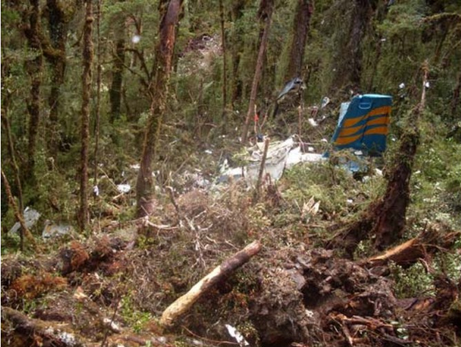 Crash site of MNA Flight 9760